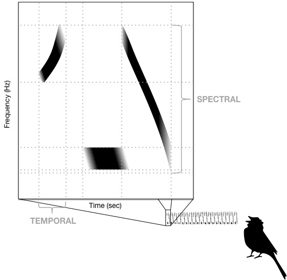 Created by Petra Deane 12.05.11